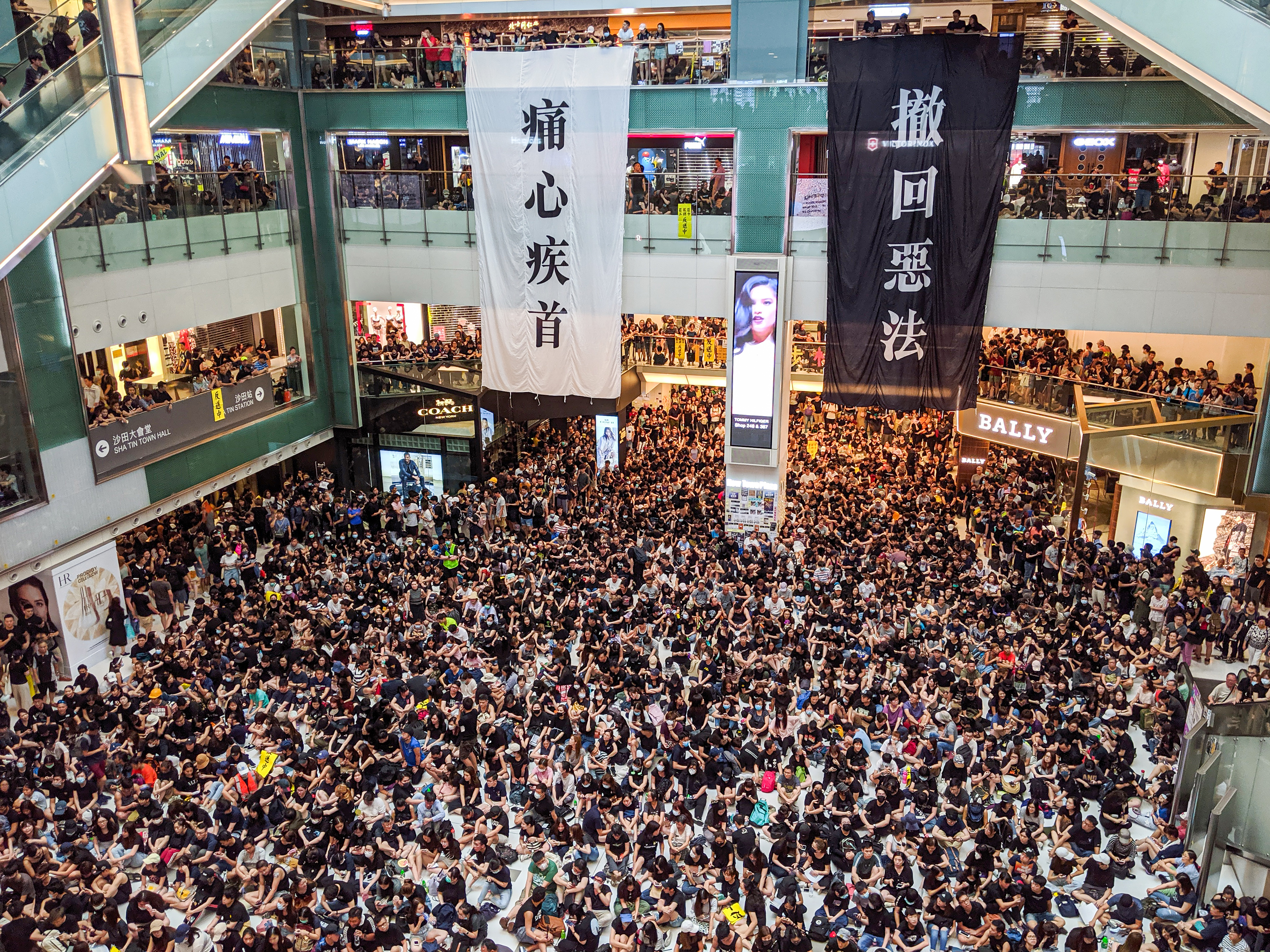 Protesters gathering at New Town Plaza, Sha Tin, Hong Kong on 5 August. A general strike was called as a protest of the extradition bill and the police excessive force.